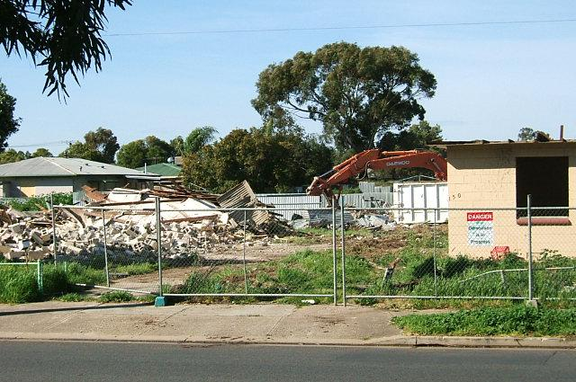 Demoltion of public housing in Mansfield Park, South Australia